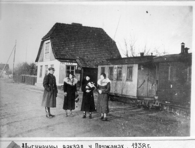 Railway station in Pruzhany.